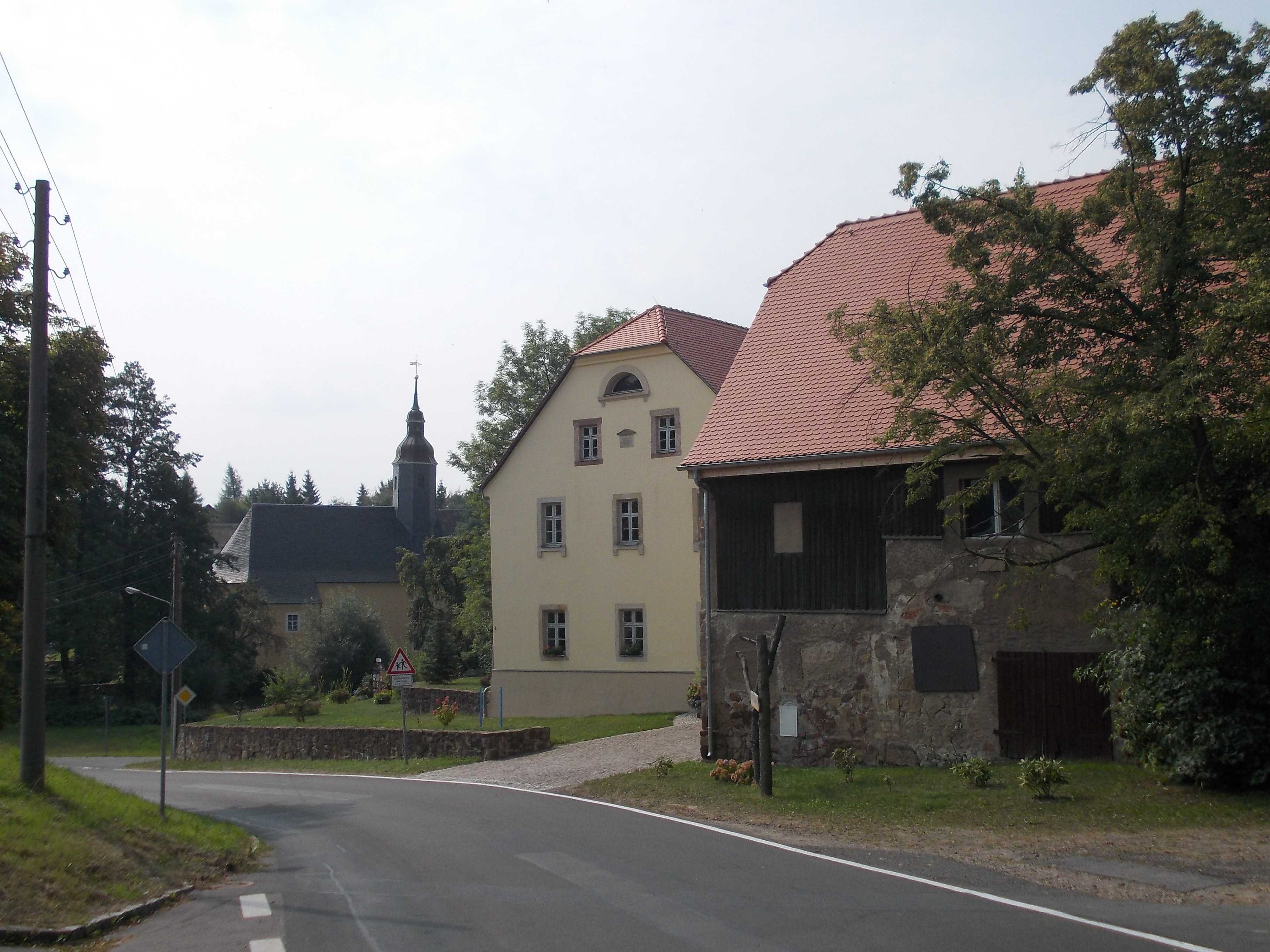 Farmstead No. 3 in Bockelwitz (Leisnig, Mittelsachsen district, Saxony) with church in the background